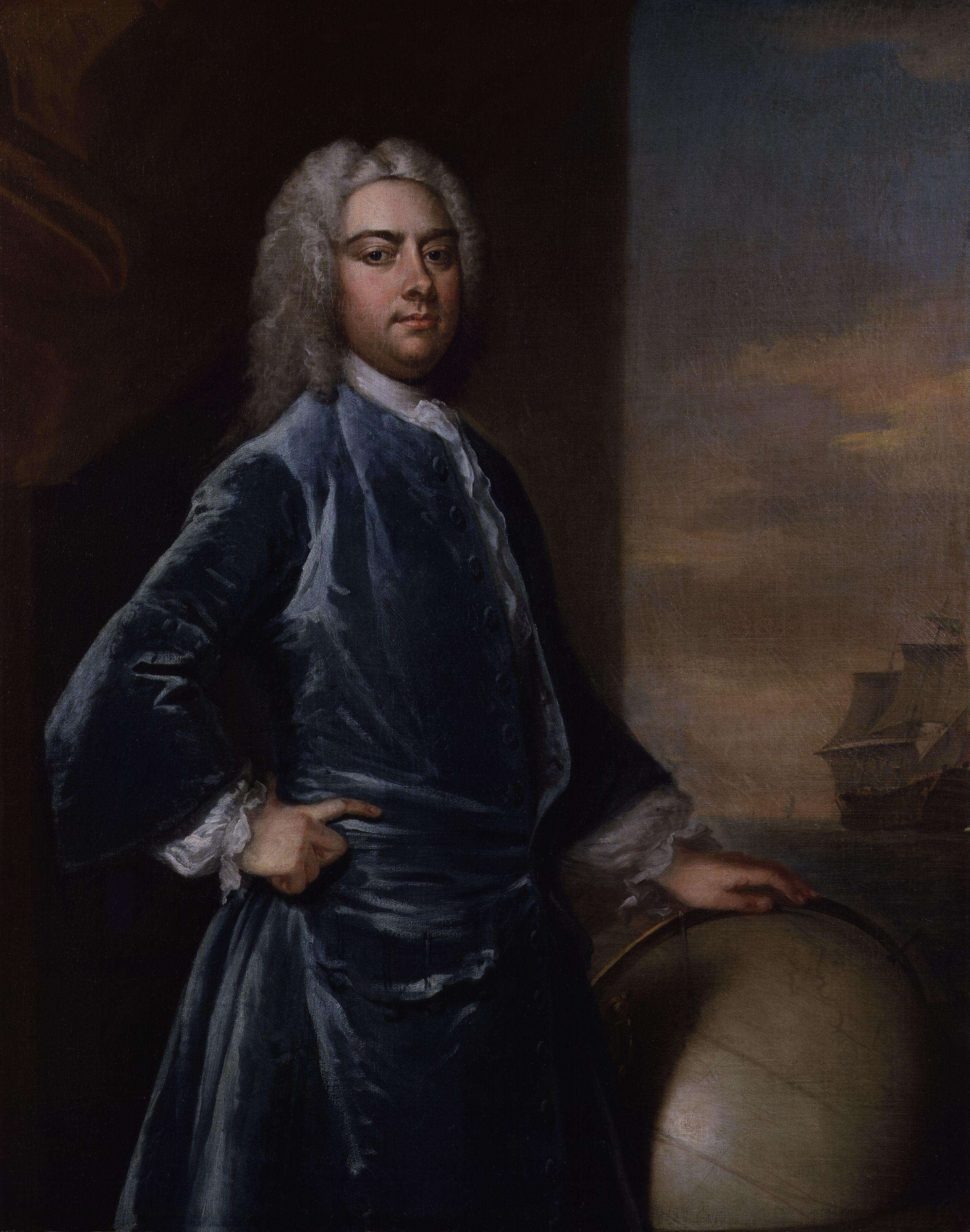 given to the National Portrait Gallery, London in 1980. All images in this batch have an unknown author, but there is strong evidence it was first published before 1923 (based mainly on the NPG's estimated date of the work).